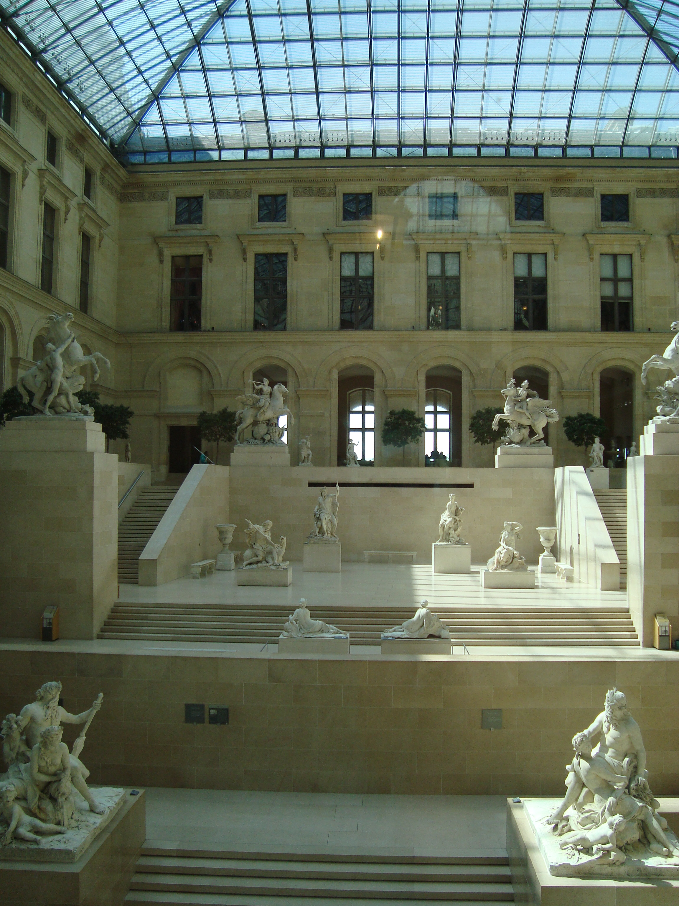 View from the east side of the Cour Marly at the Louvre Museum, Paris